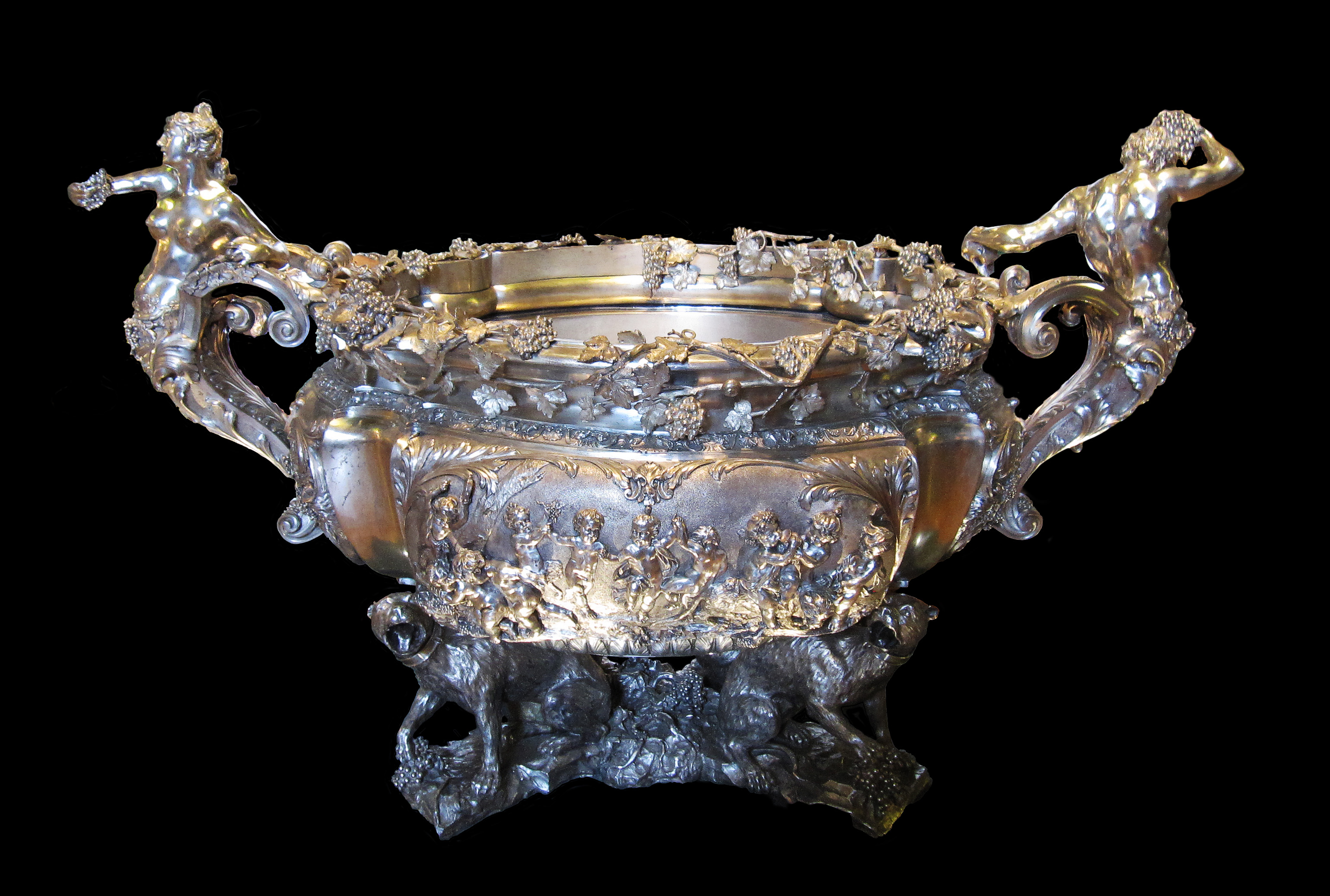 The Jerningham Wine Cooler, electrotype (silver on copper core). Birmingham, 1884 (original London, 1734-5). Elkington and Company. This is a Victorian copy of a celebrated 18th century silver cooler. The original was commissioned by Henry Jernegan (Jerningham), a London goldsmith-banker, who wanted to create the largest ever wine cooler celebrating the pleasures of wine. He employed the sculptor John Michael Rysbrack to model the Bacchanalian scenes on the bowl, the crouching panthers beneath and the satyr handles. It took the German silversmith Charles Frederick Kandler four years to make and weighed 8,000 os. In 1737, Jernegan offered the cooler as a lottery price to raise funds for a new bridge over the Thames at Westminster. Silver medals were sold as lottery tickets about five or six shillings each. The winner, Major William Battine of East Marden in Sussex, appears to have sold the cooler to the regent Anna Leopoldovna of Russia in 1738. Since 1743 the cooler has been in the Hermitage, St. Petersburg.